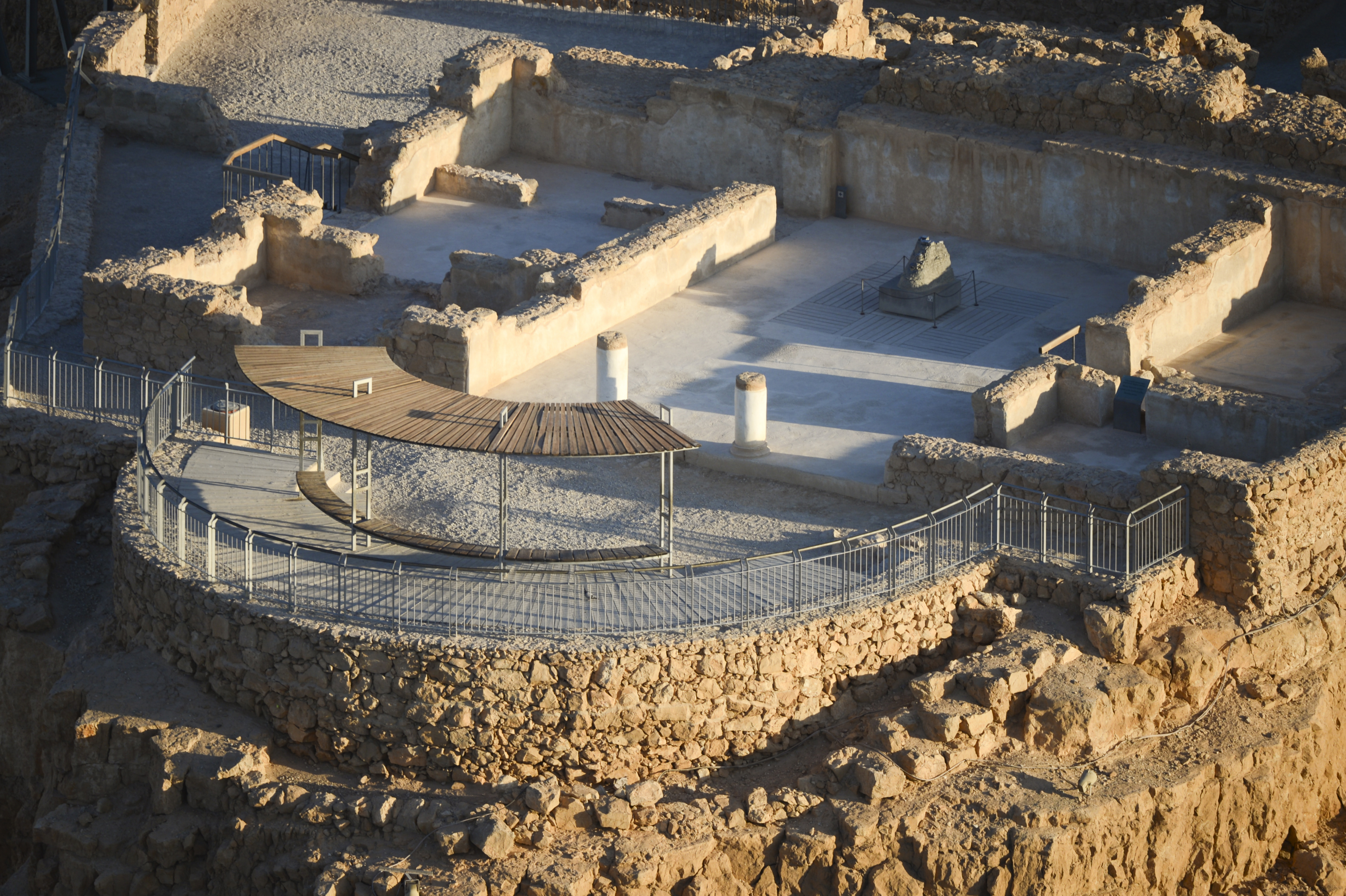 Aerial view of the Lower Terrace of the Northern Palace (built by King Herod) on Masada (Hebrew מצדה).